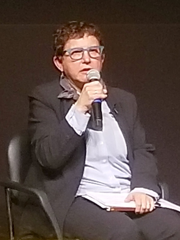 B. Ruby Rich at a Q&A for Zama at the Berkeley Art Museum and Pacific Film Archive in Berkeley, California, United States